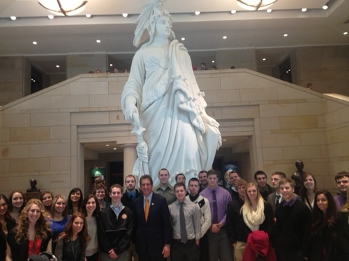 Students who participate in the Renacci Scholars program have the opportunity to visit Washington D.C.